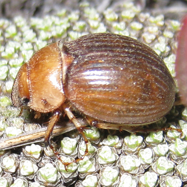 Closeup of a Cromwell chafer beetle (Prodontria lewisi) at night in the Cromwell Chafer Beetle Reserve on scabweed (Raoulia)